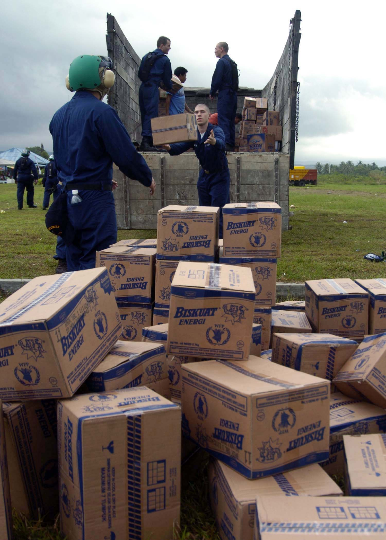 Indian Ocean (Jan. 2, 2005) – Sailors, assigned to USS Abraham Lincoln (CVN 72) and embarked Carrier Air Wing Two (CVW-2), move supplies from a truck in preparation for aerial resupply drops by SH-60 Seahawk helicopters. Helicopters assigned to CVW-2 and Sailors from Abraham Lincoln are conducting humanitarian operations in the wake of the Tsunami that struck South East Asia. The Abraham Lincoln Carrier Strike Group is currently operating in the Indian Ocean off the waters of Indonesia and Thailand. U.S. Navy photo by Photographer's Mate 2nd Class Philip A. McDaniel (RELEASED)